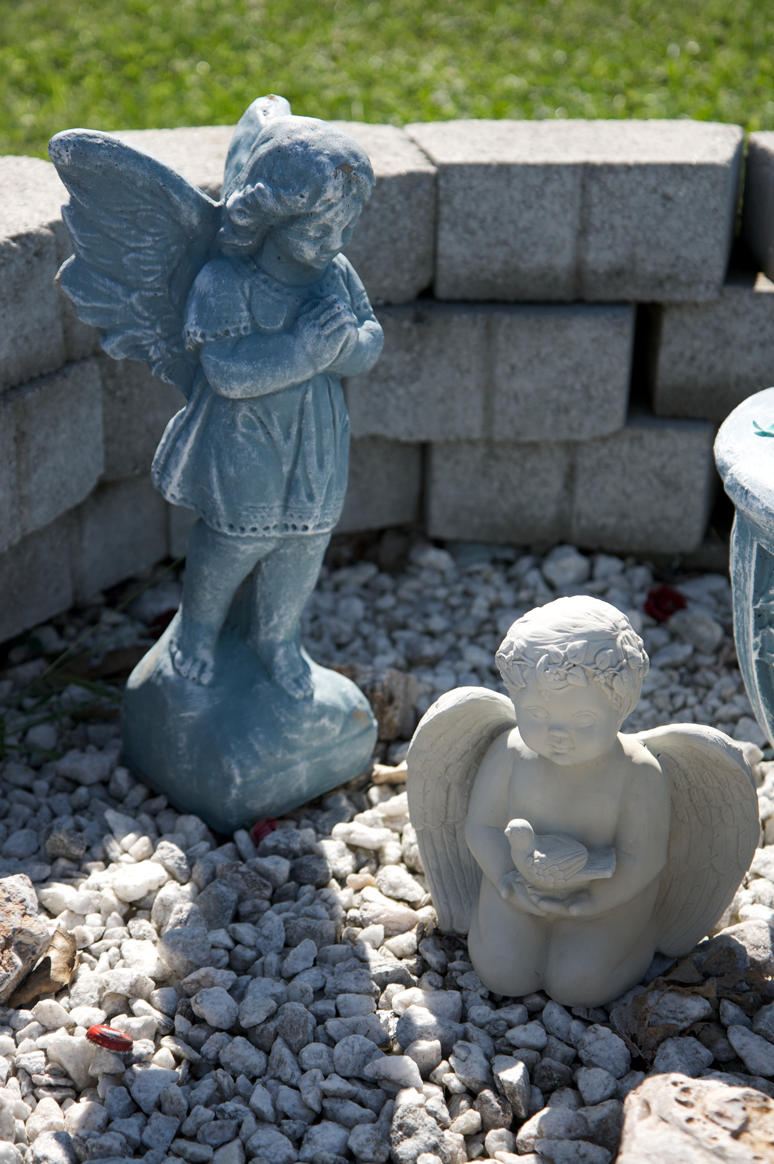 Rock garden with statuettes, seen at a motel on U.S. Route 66 in Lebanon, Missouri.